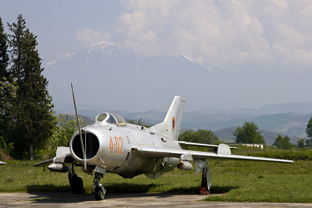 Good looking F6 at Kucove.